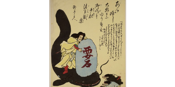 Japanese tradition,Catfish occurs Earthquake.